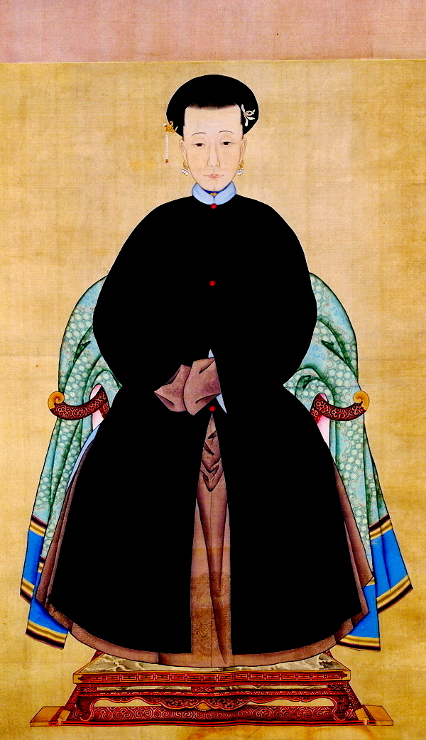 Portrait of an Imperial Consort of the Qing Dynasty Kangxi Emperor (Probably his third empress, "Empress Xiao Yi Ren")